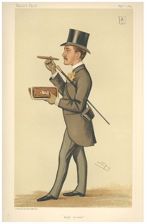 Caricature of Sir John Christopher Willoughby Bt. Caption read "high prices".